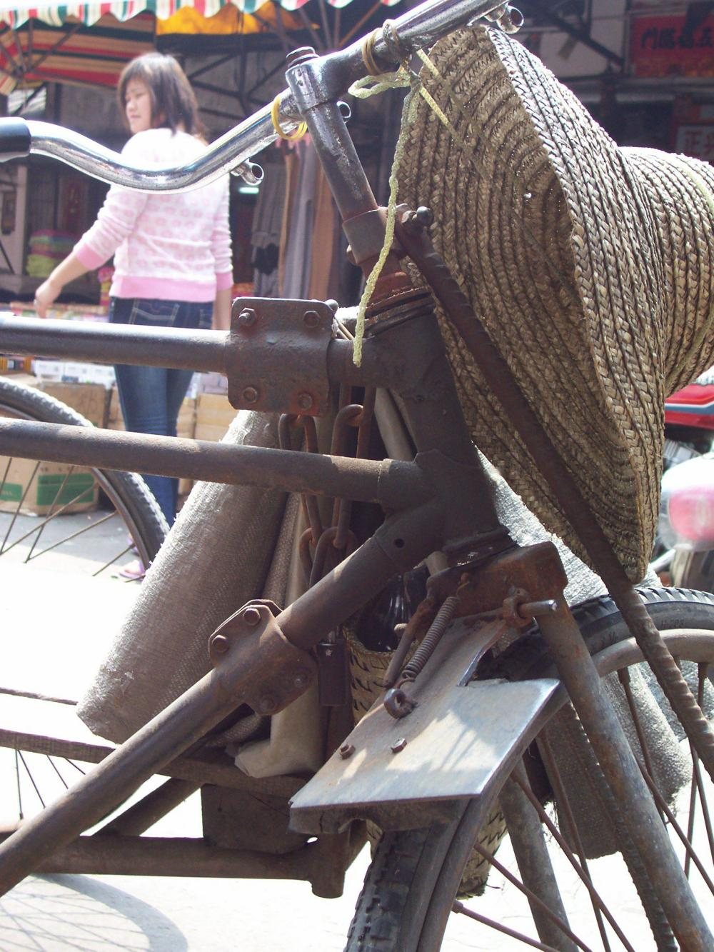 A picture of a Chinese work tricycle with an improvised foot-operated spoon brake and double top tubes.